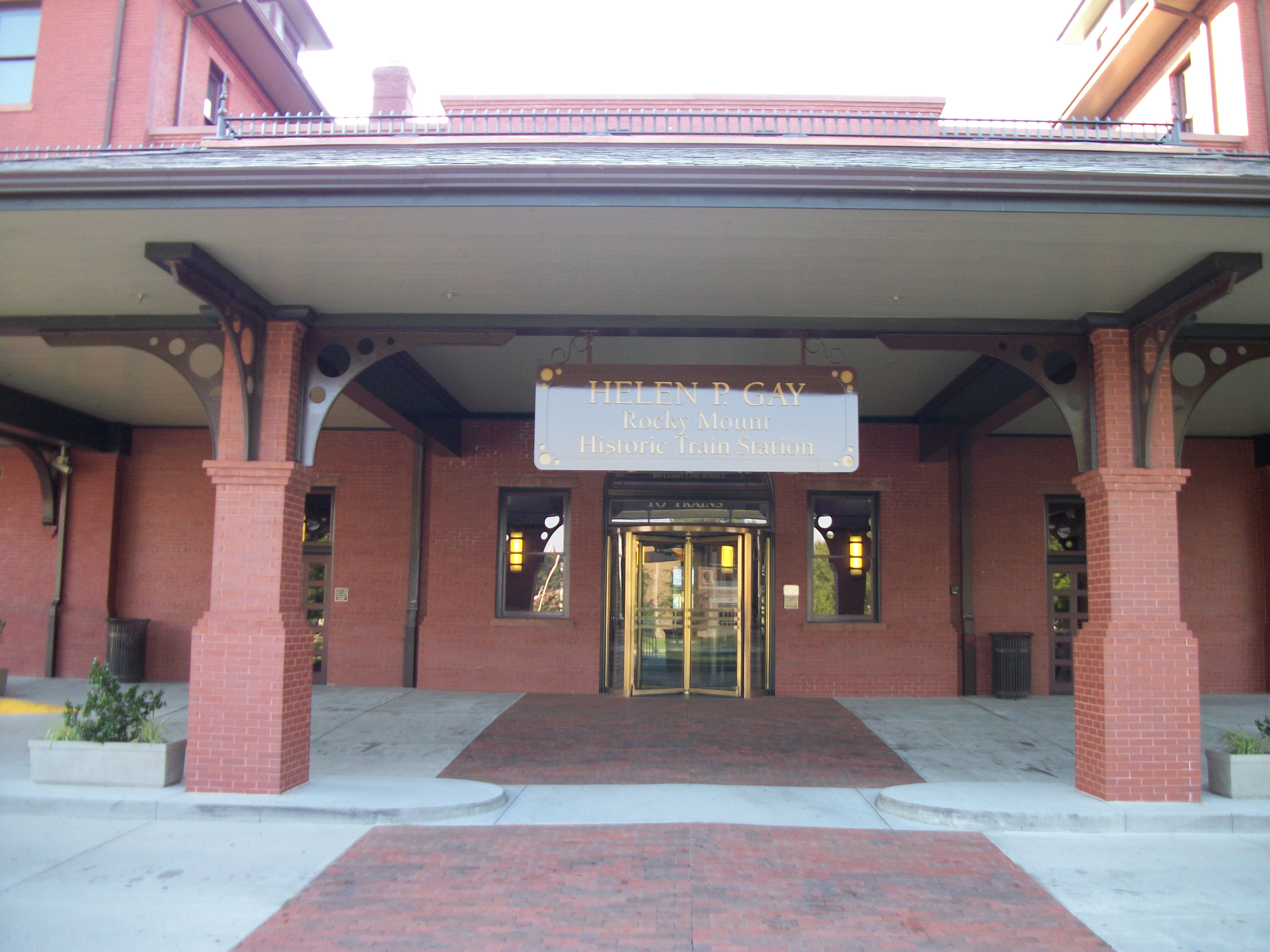 Another attempt to take a shot of the entrance to the historic Helen P. Gay Rocky Mount (Amtrak station) in Rocky Mount, North Carolina between Hammond Street and Coast Line Street. Originally a Wilmington and Weldon Railroad then acquired by the Atlantic Coast Line Railroad, and restored for Amtrak and named after a woman name Helen P. Gay(whoever she was) as you can see here. This is my second attempt to take a shot of the entrance and prove that it was named after Helen P. Gay. It's closer, and it doesn't have the sunset to create such excessive glare, because this was taken in the morning.